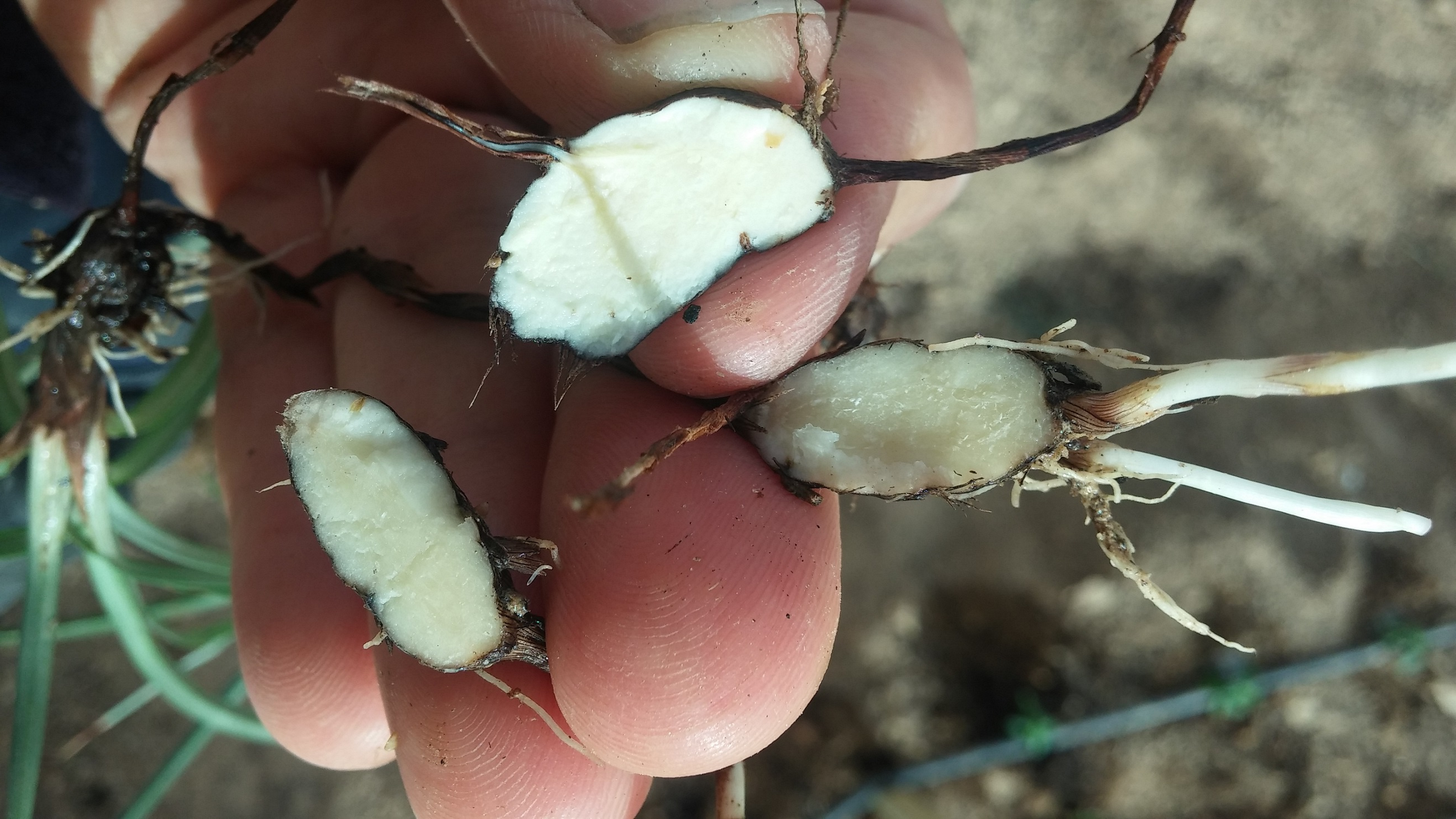 Cyperus rotundus bulb